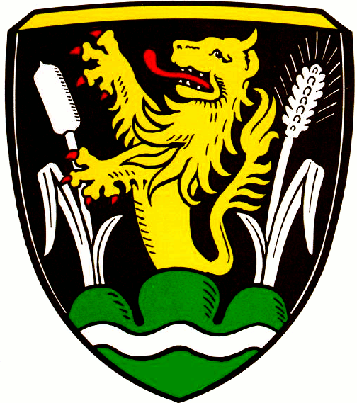 Coat of Arms of Großkarolinenfeld